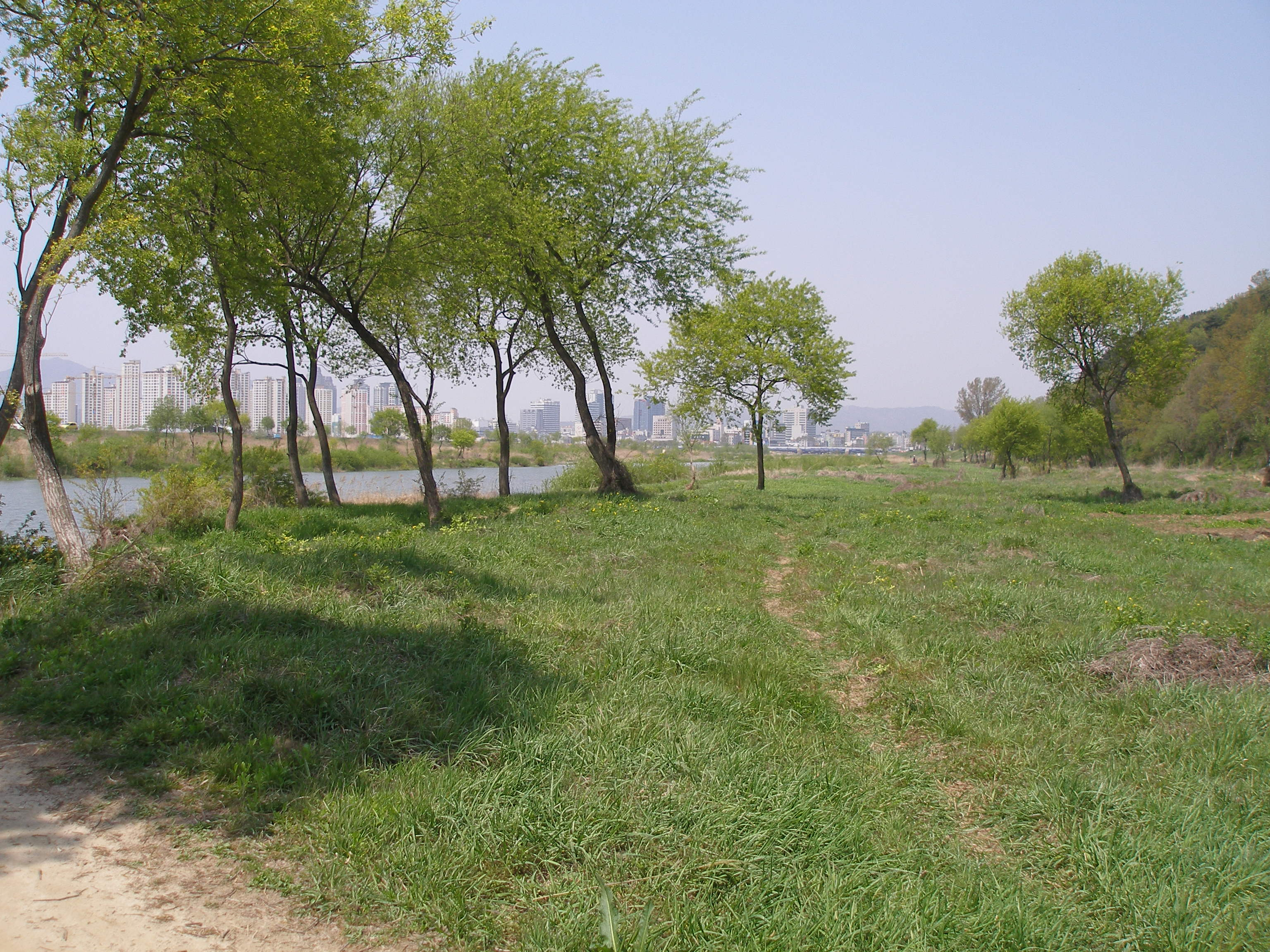 Yuseong of Daejon, looking at Wolpyeong park